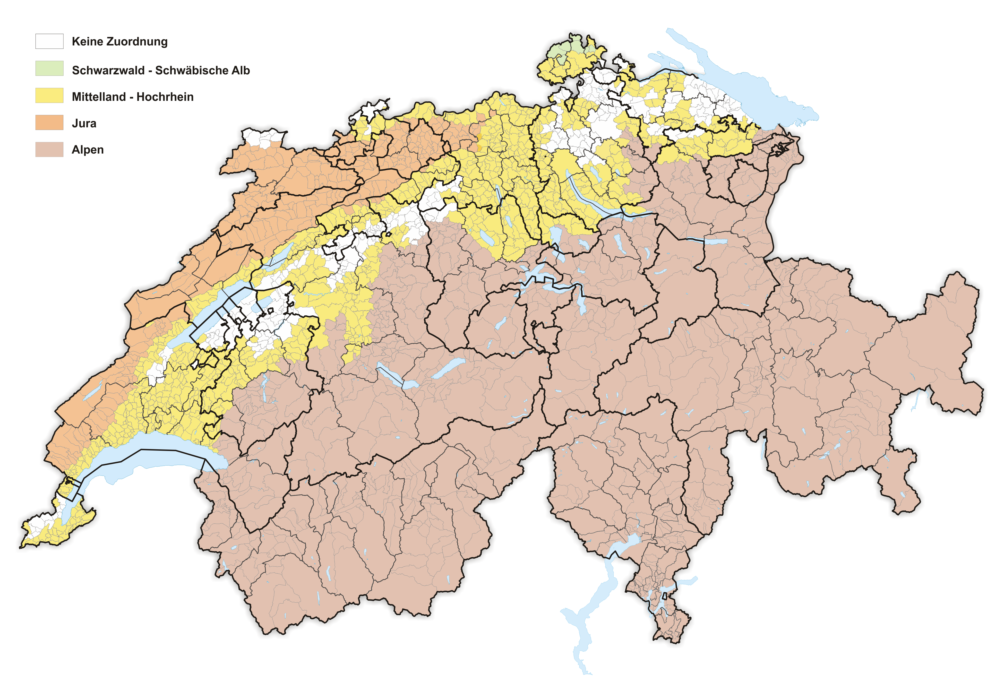 Swiss Mountain area regions